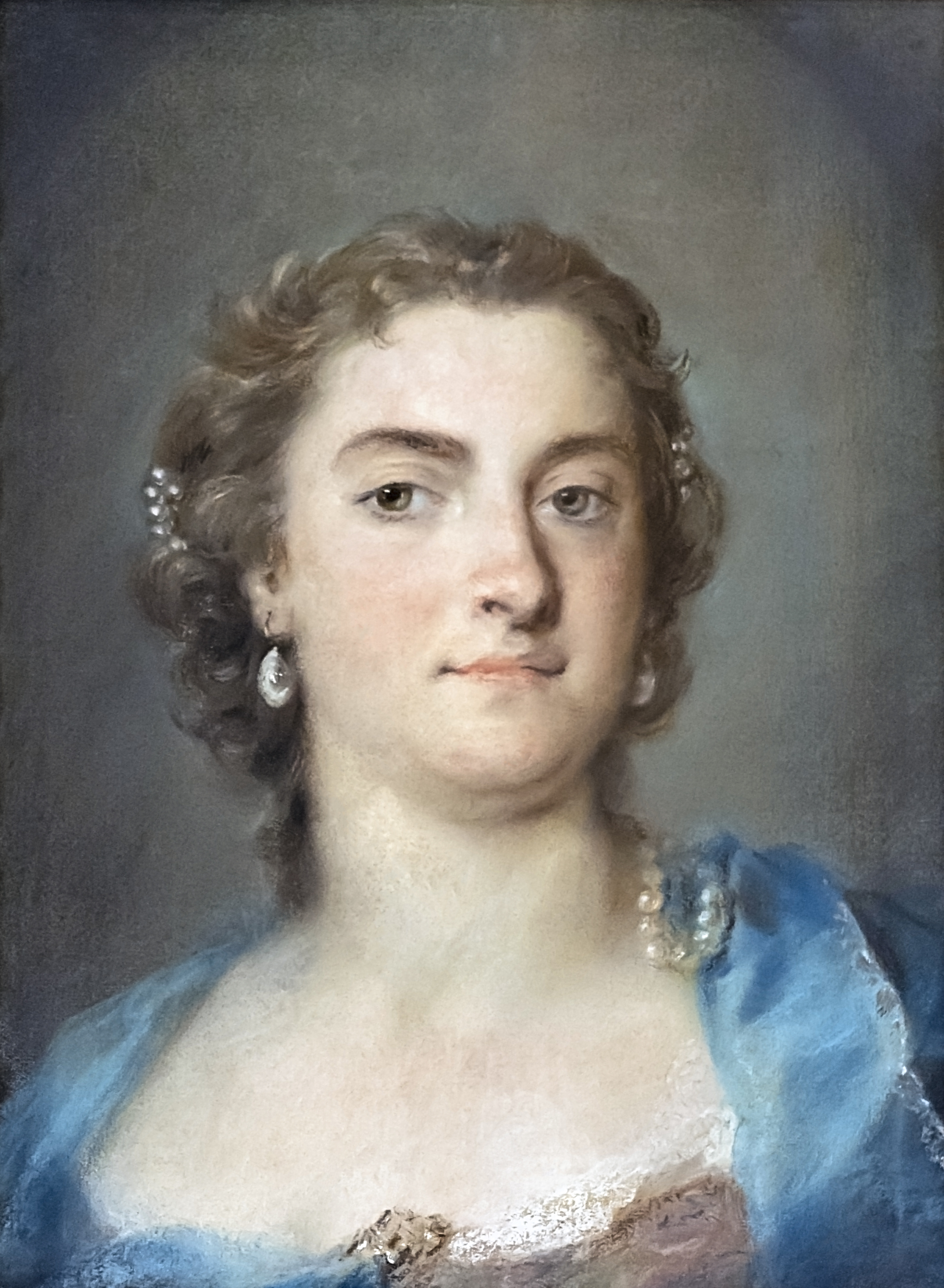 Depicted person: Faustina Bordoni – opera singer